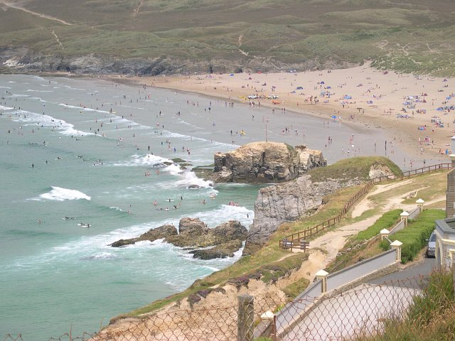 Perranporth Beach. There seem to be as many people in the sea as there are on the beach. This is a normal summer scene at Perranporth.